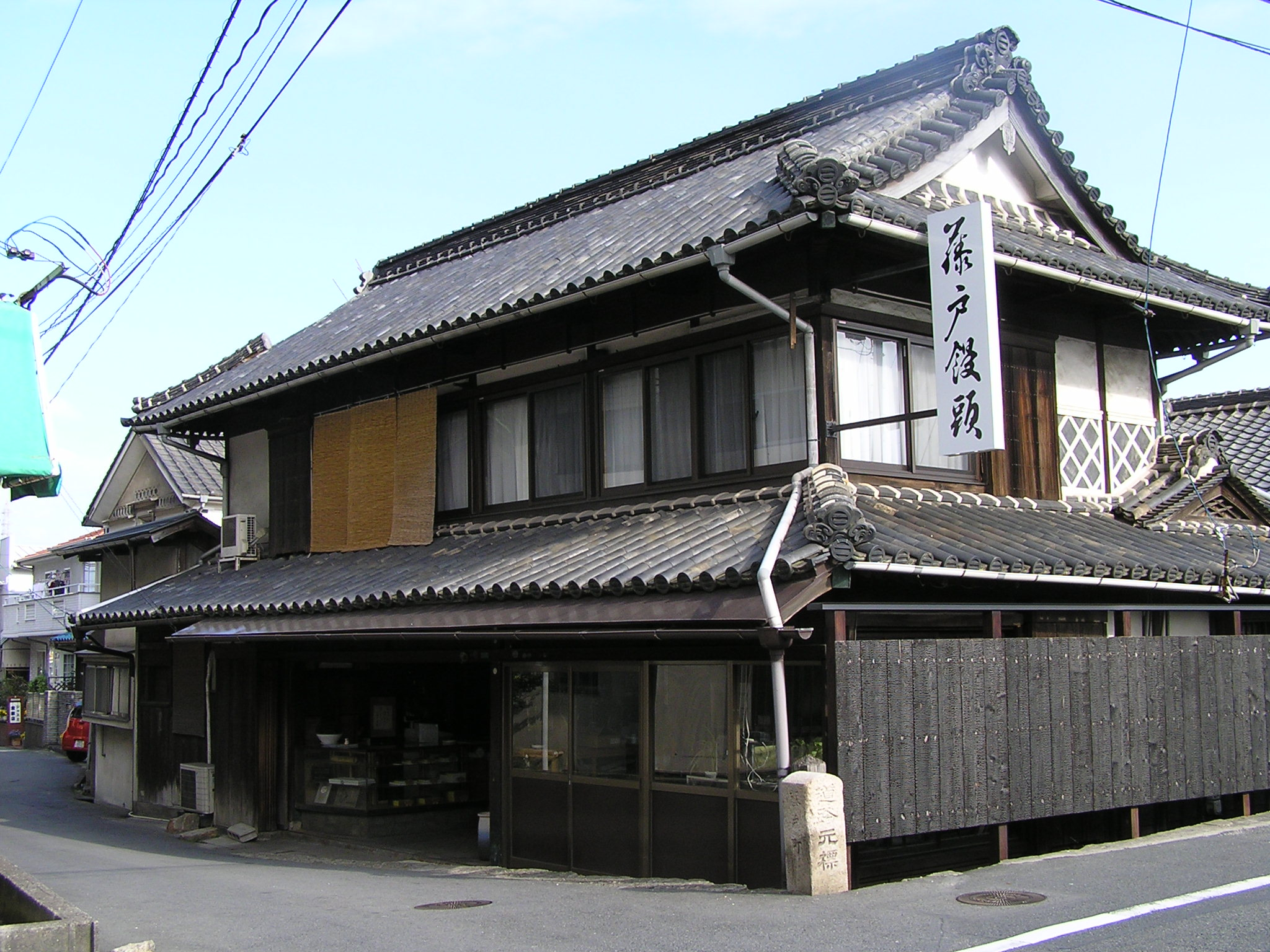 Fujito-Manju,Traditional cake company in Kurashiki,Japan.